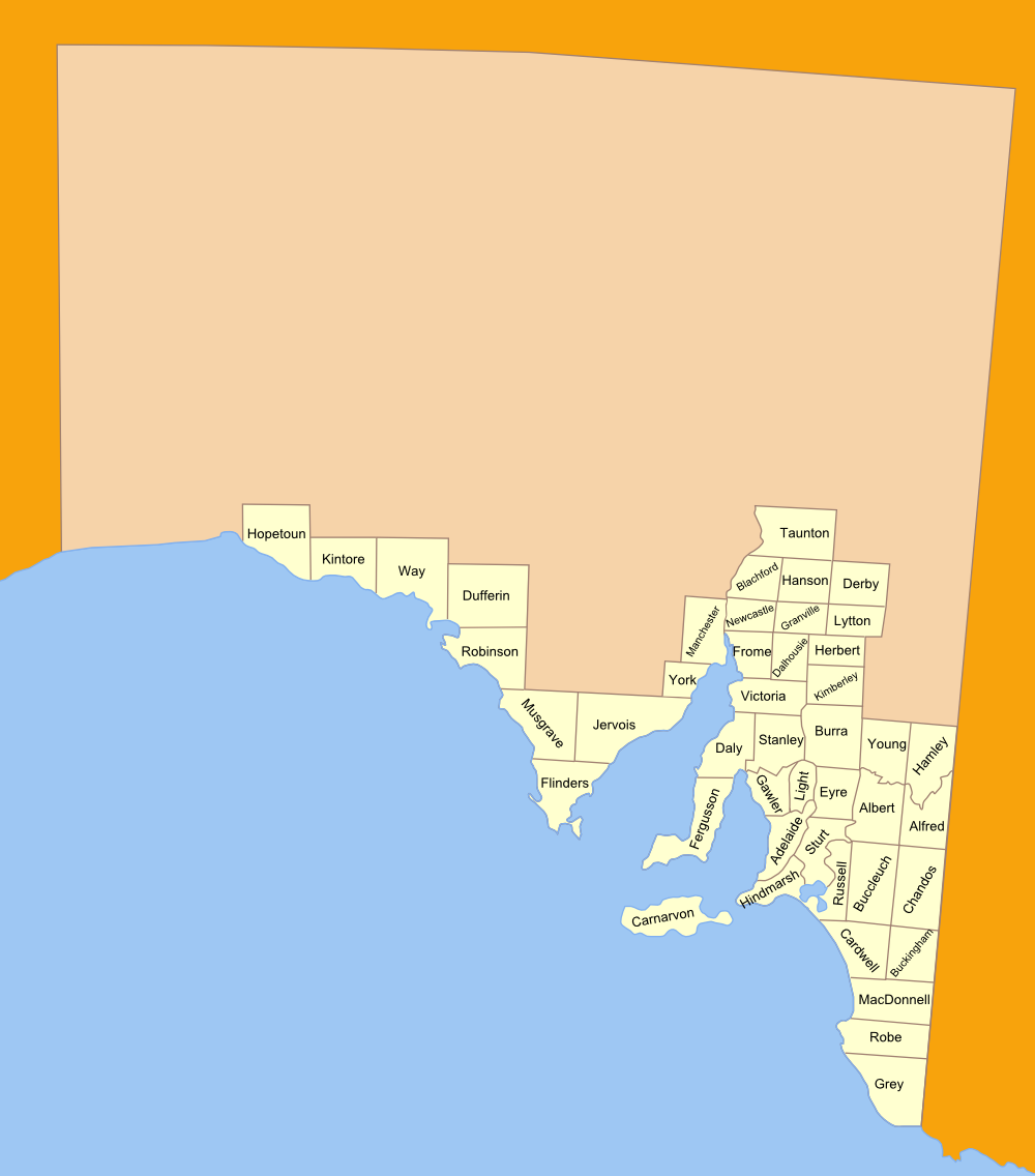 45 counties of South Australia in 1893, based on public domain old map in National Library collection. They are used only for cadastral purposes today, but there are several more added (now 49) - they still do not cover the whole state though. (this does not include the county of Norman, which is not a current county listed at the Adelaide Co-operative History site here See also: 1886 map with 37 counties